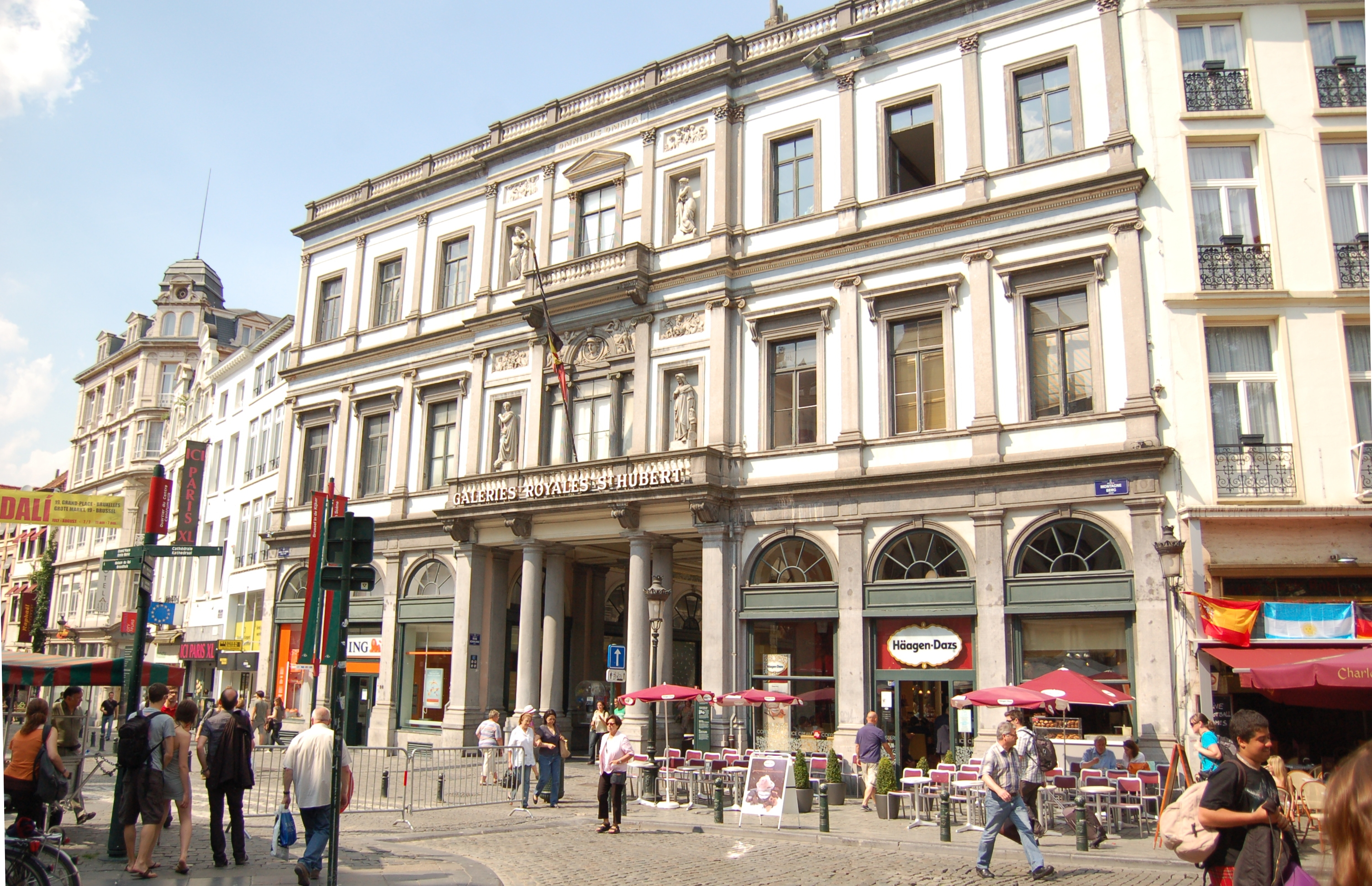 Royal Galleries of Saint-Hubert entrance - Brussels - Belgium